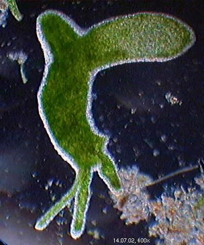 The well-known freshwater polyp Hydra viridis.